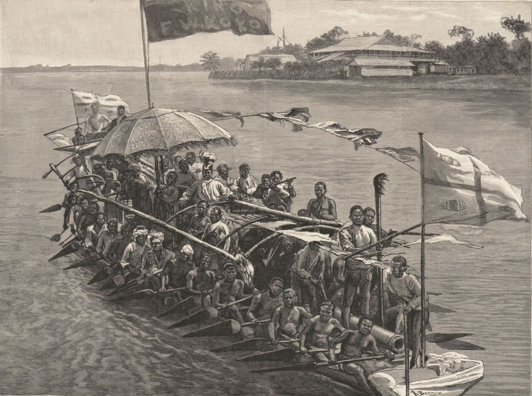 King Koko in His War Canoe on His Way Down the River, The Rising of the Brassmen on the Guinea Coast, full-page illustration from The Daily Graphic of London